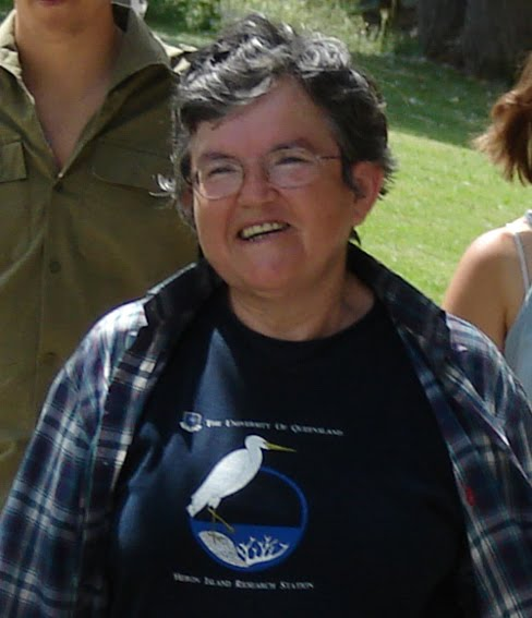 Nieves López Martínez in 2007